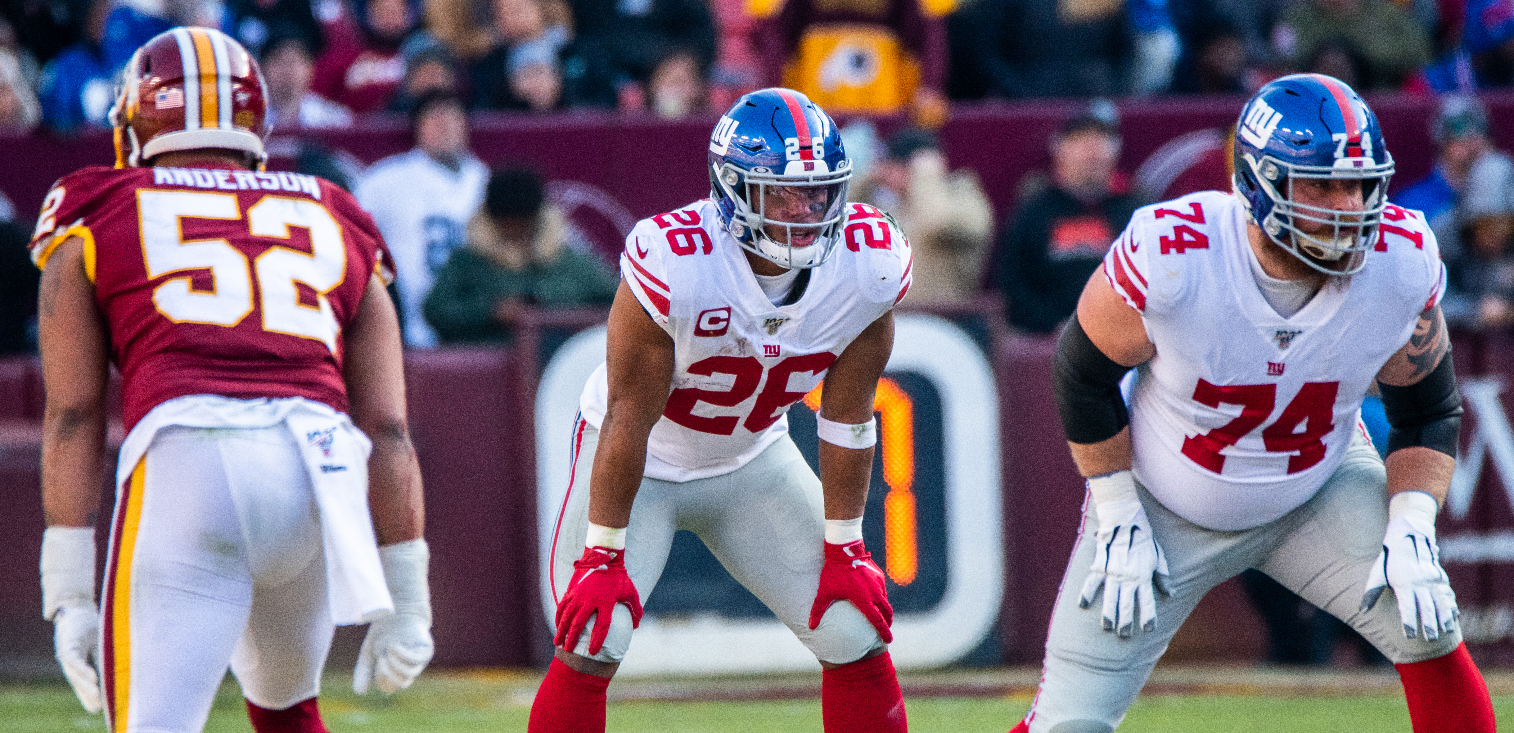 In 2019